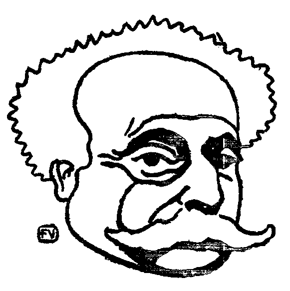 French writer Alexandre Dumas (fils) (1824-1895) by Félix Valloton (1865-1925)